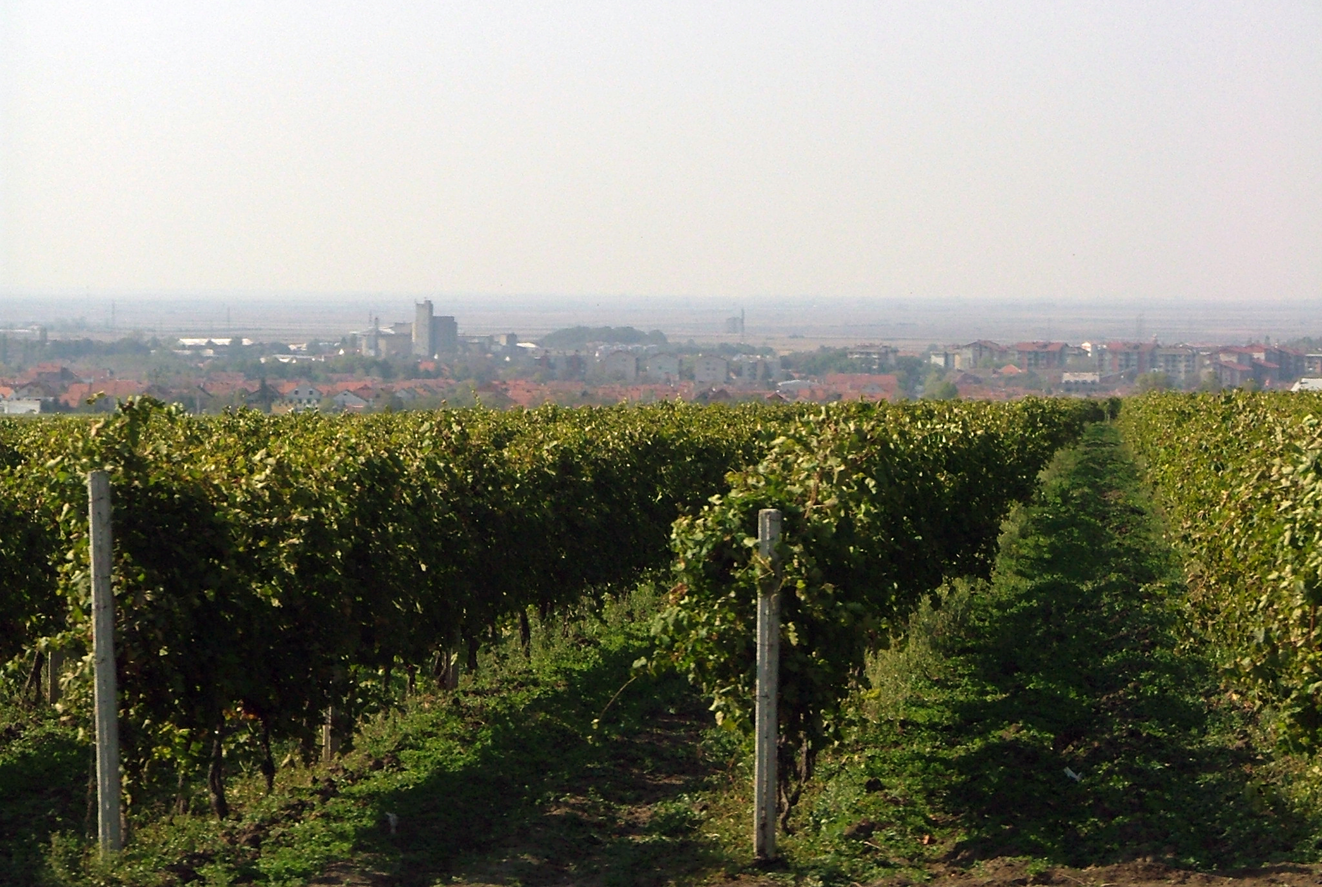 Вршачки виногради на обронцима Вршачке планине